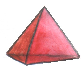 by Shirley